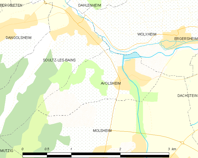 Map of French municipality